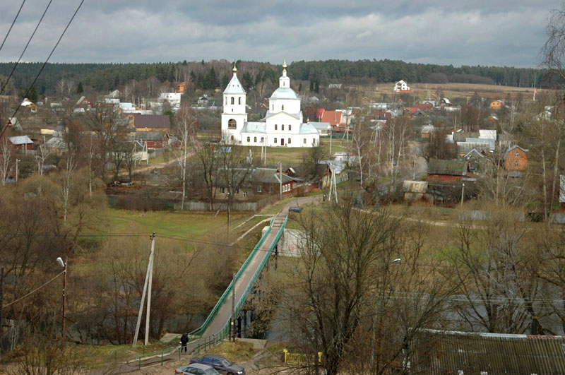 Church in Vereya